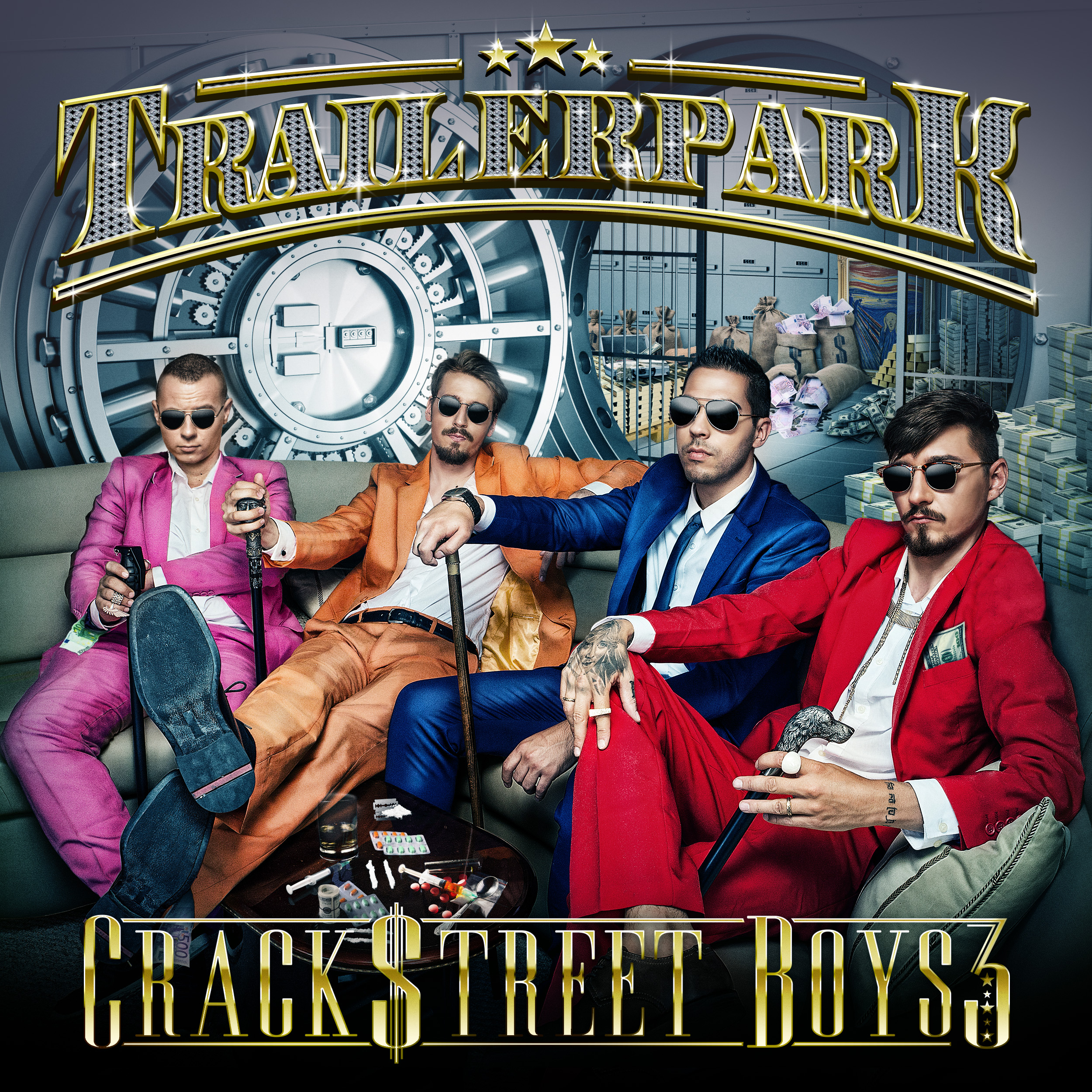 Cover des Albums „Crackstreet Boys 3“